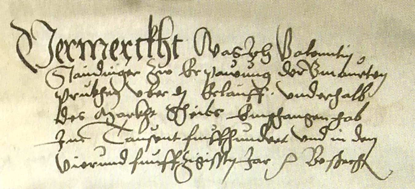 Römerbrücke Vermerk Staudinger